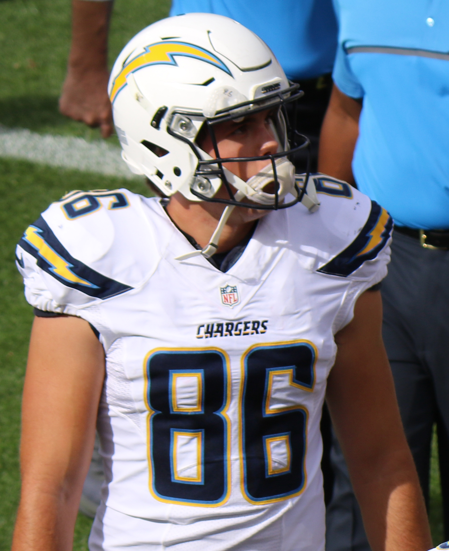 Hunter Henry, a player on the National Football League.